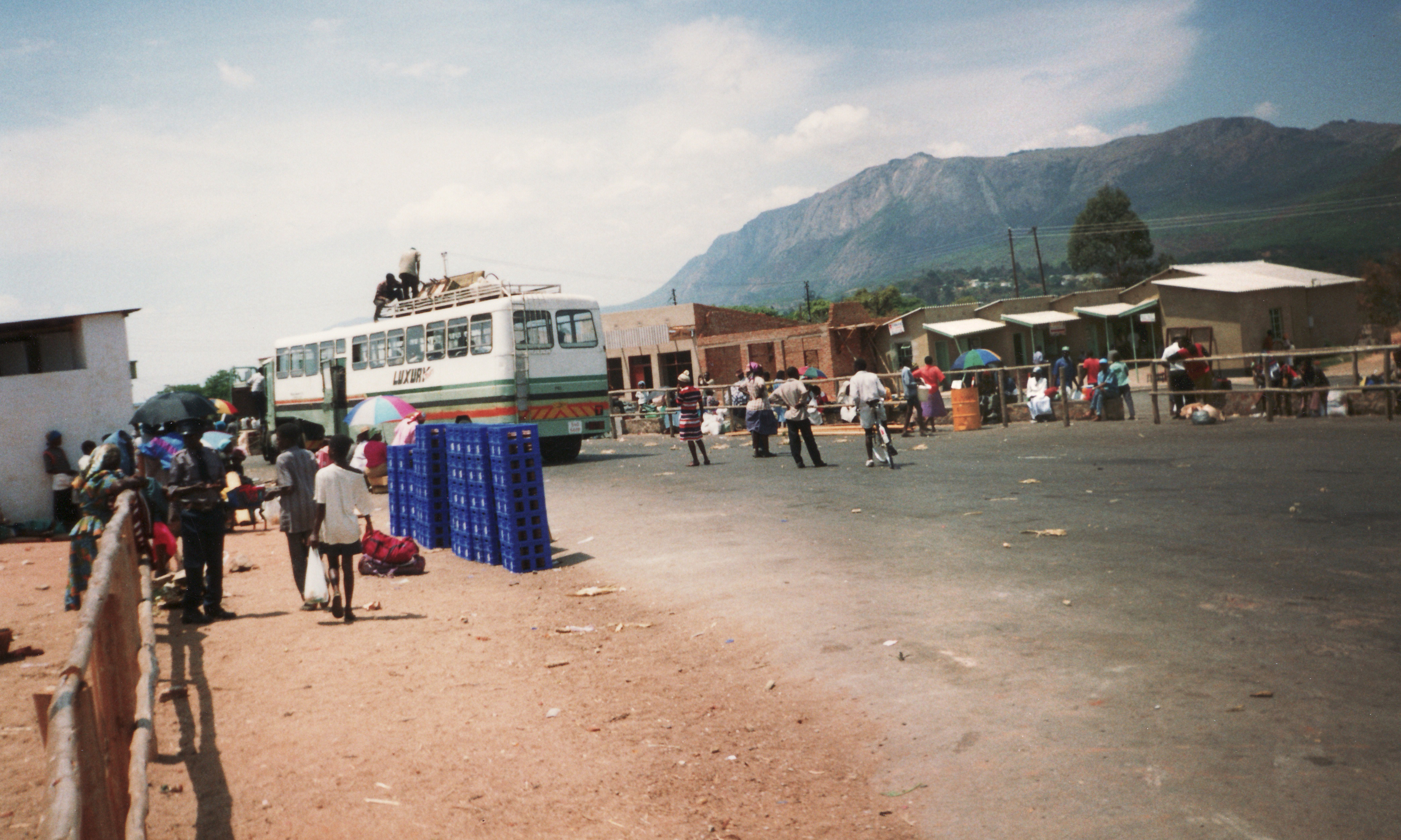 Nyamhuka township, taken in October 1995.